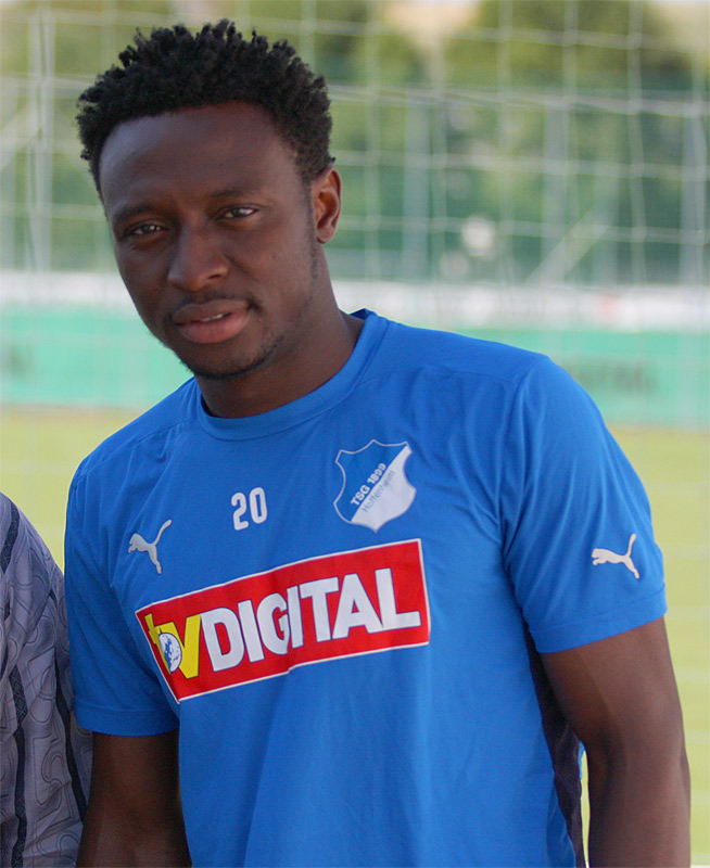 taken in autumn 2009